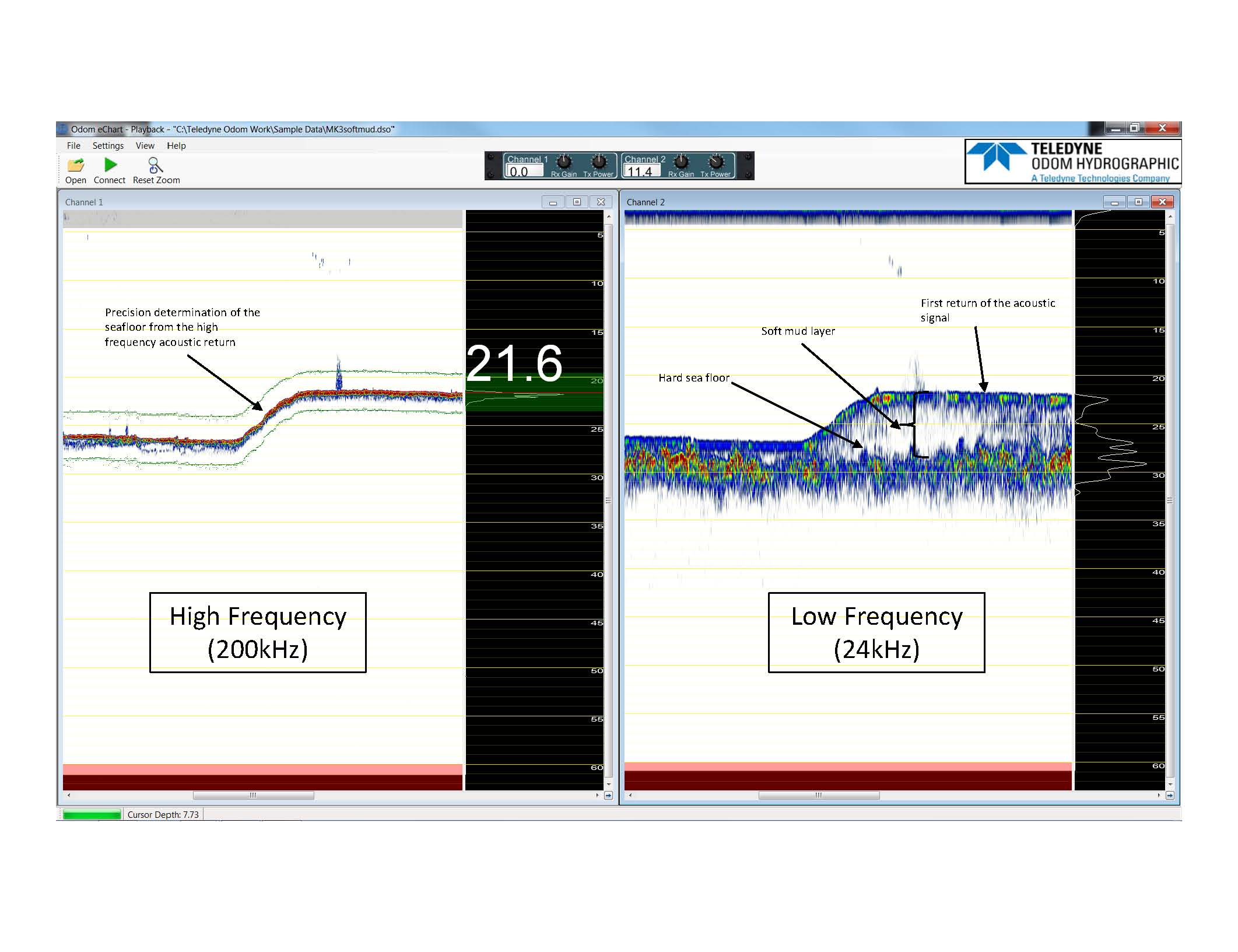 Example of a digital screengrab of dual frequency singlebeam echo sounder traces